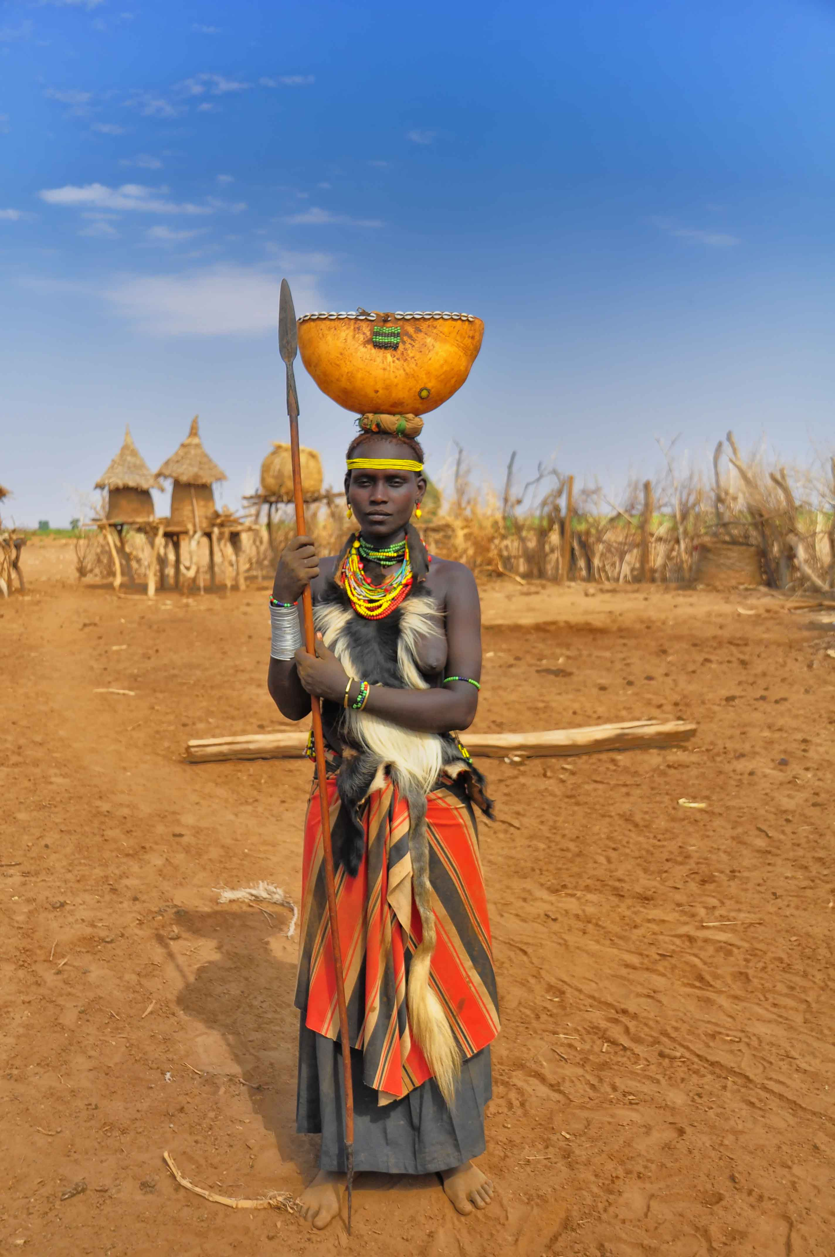 The buildings behind the woman are sorghum silos. The gourd on her head is for carrying water.